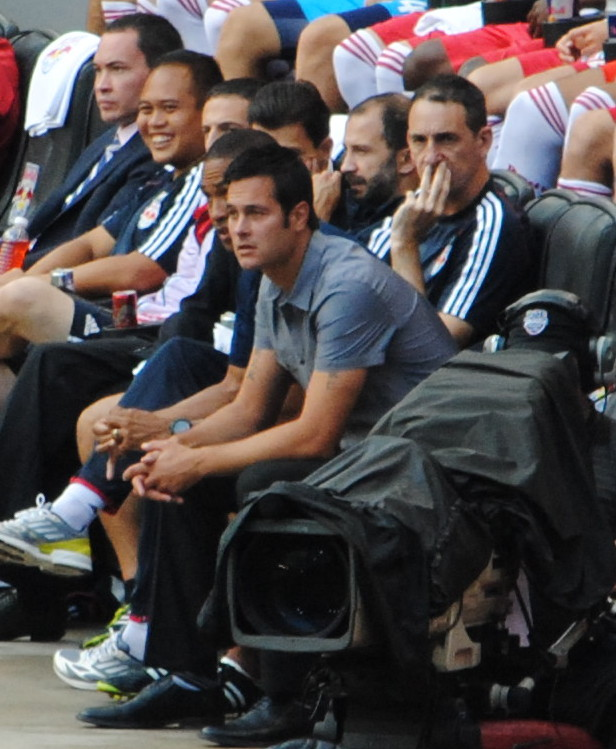 Petke coaching RBNY